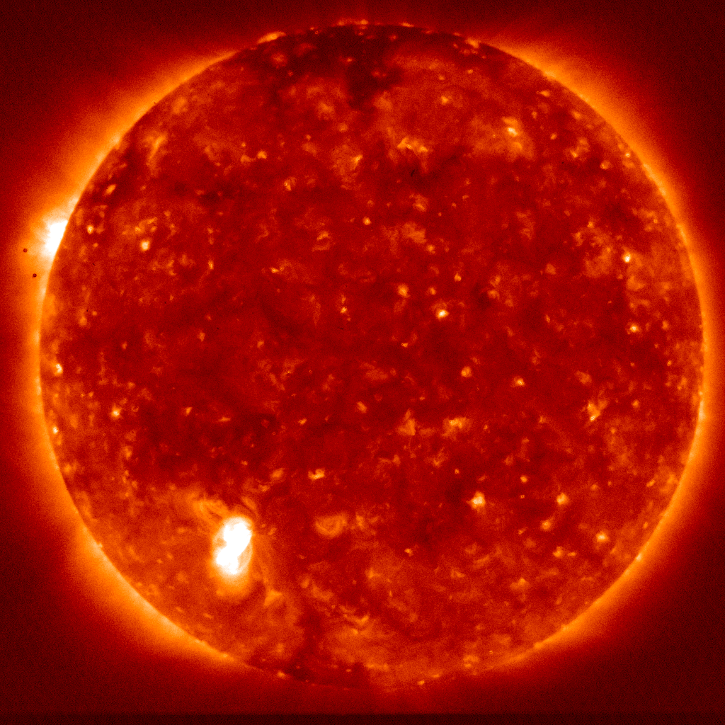 Soft X-ray image in the titanium-polyimide ("Ti_poly") filter from the Hinode X-Ray Telescope (XRT) obtained at: [ 2009/10/15 18:03 UT ]